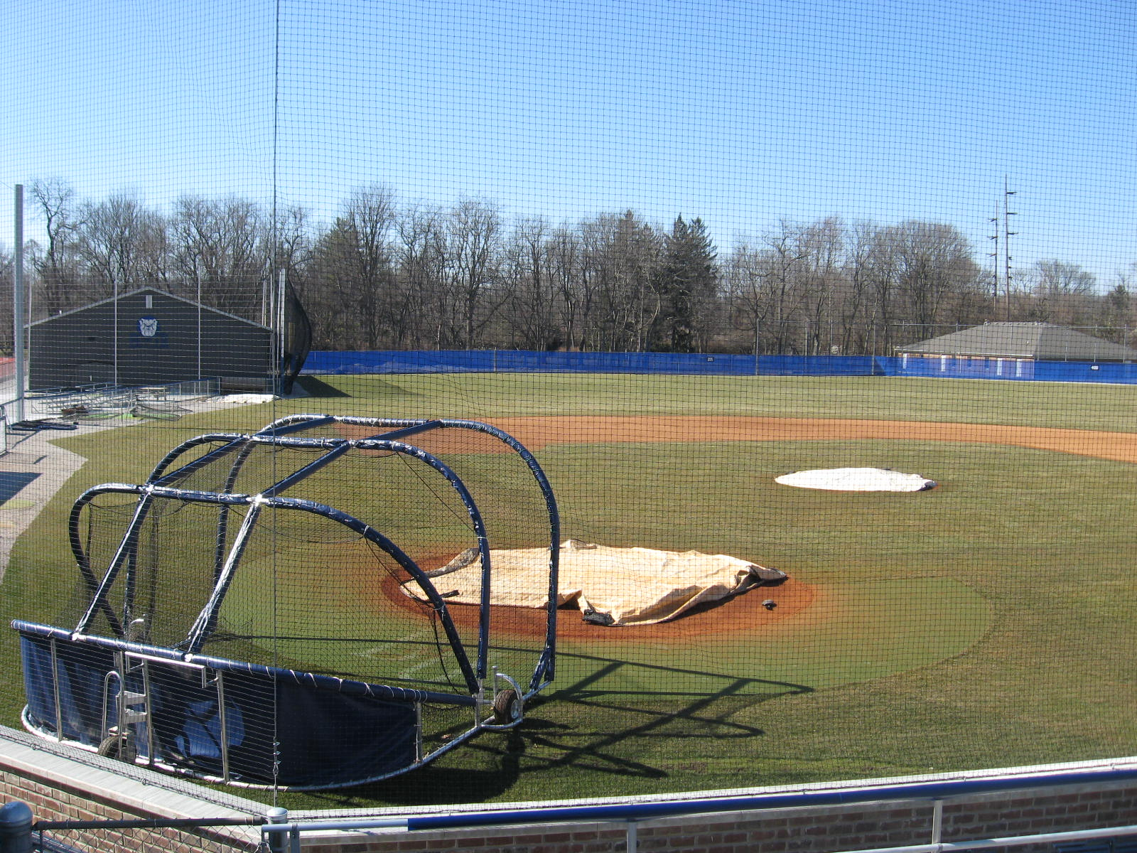 Butler Baseball FIeld